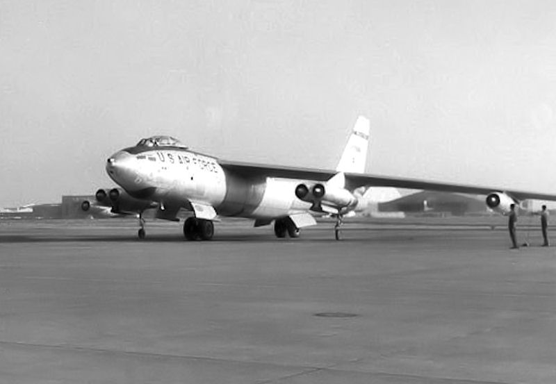 Boeing B-47E-75-BW Stratojet 51-7066 prepares to taxi to the active runway at McClellan AFB under the watchful eye of several film crews. This flight, on 30 Oct 1969, would be the final active duty USAF B-47 flight. The former 57th WRS aircraft is on her way Seattle. Today, 7066 is displayed in SAC livery at the Museum of Flight